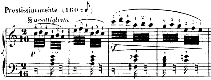 Opening bars of Comme le vent, composed by by Charles-Valentin Alkan